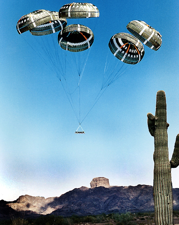 Army equipment and weapons are dropped by parachute at Yuma Proving Ground, Ariz., to test parachute systems and the ability of the test item to withstand impact. (Photo courtesy of Photo by Yuma Test Center).Castle Dome of the Castle Dome Mountains in background.